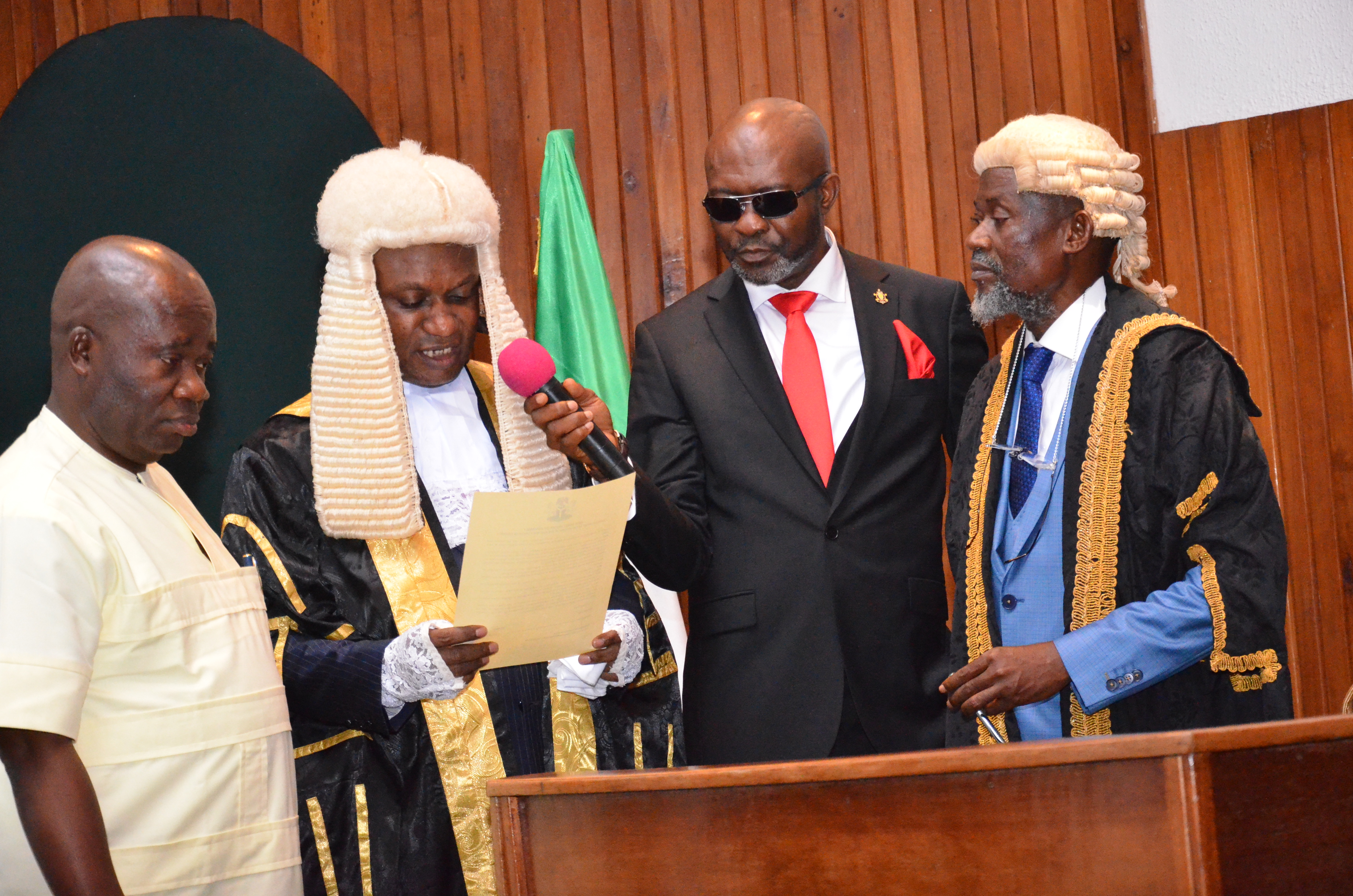 L-R Hon Munachim Alozie,Speaker Abia State House of Assembly Rt. Hon Chinedum Enyinnaya Orji,Hon Ginger Onwusibe and the Clerk of the House Sir John Pedro-Irokanis